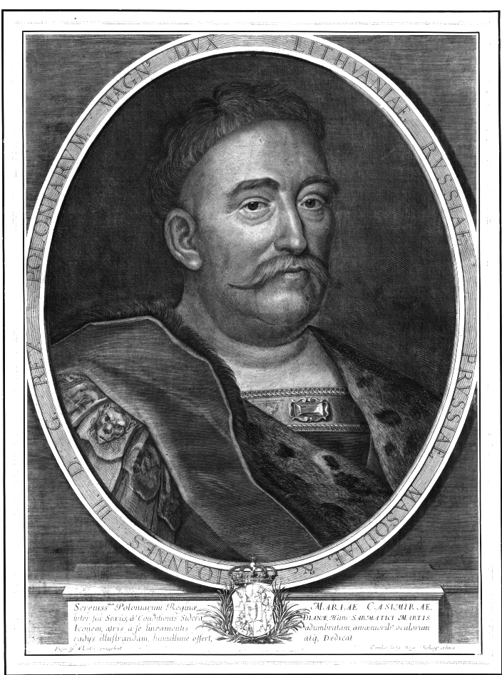 John III Sobieski of Poland